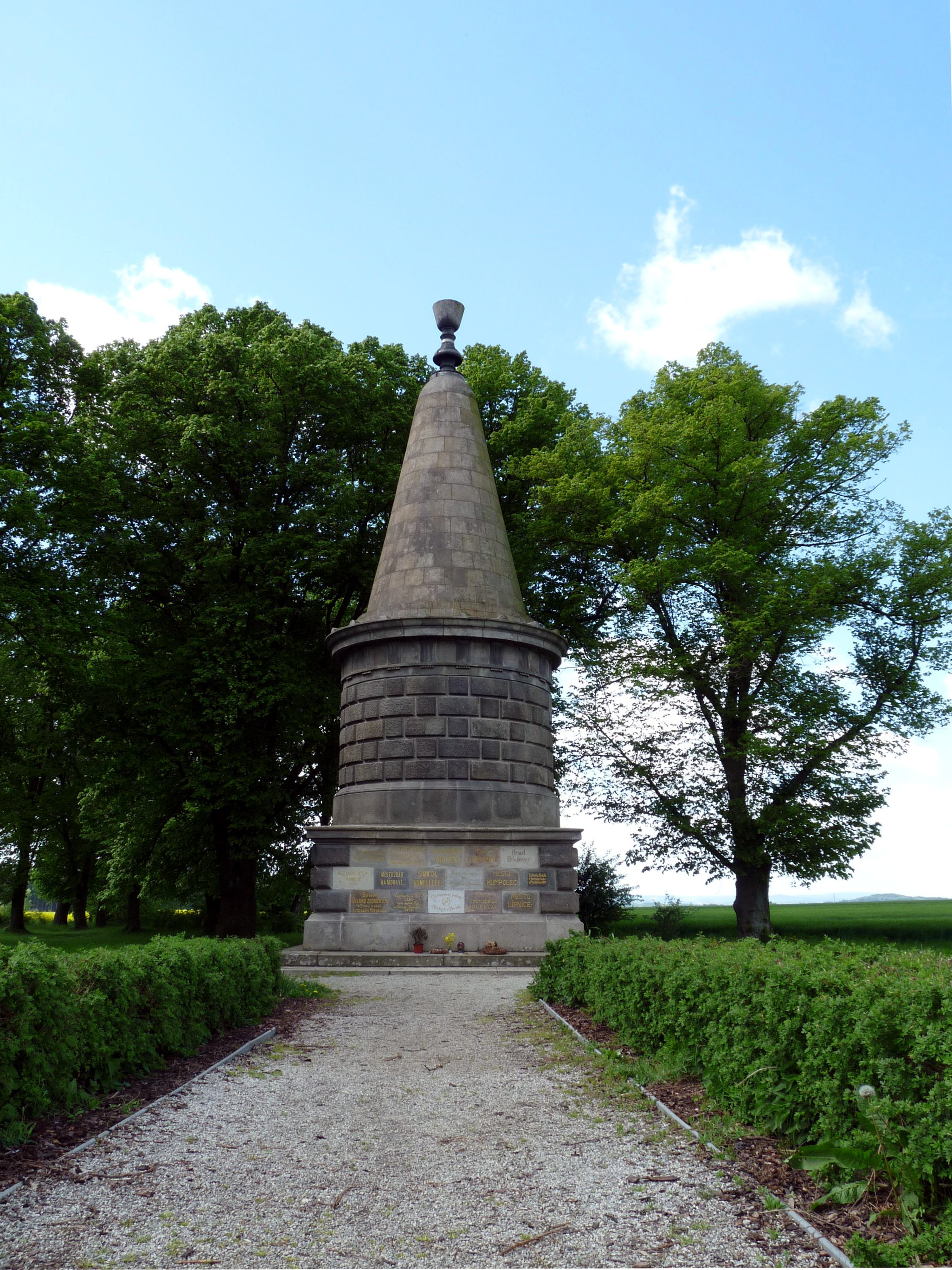 Jan Žižka monument by the village of Žižkovo Pole, Havlíčkův Brod District, Vysočina Region, Czech Republic. Jan Žižka supposedly died at that place.